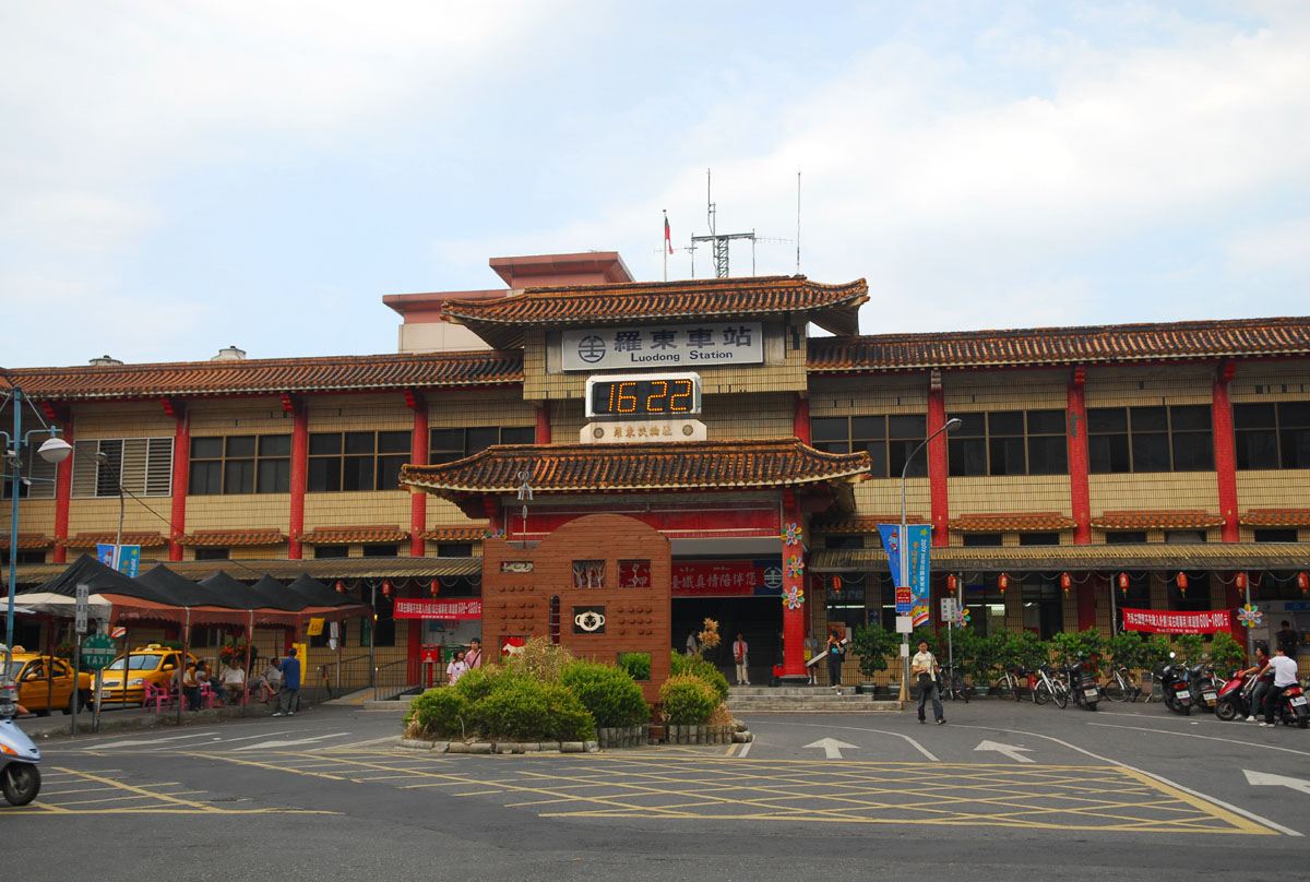 Erjie Station is a local train station of Yilan Line, part of Taiwan's eastern rail line. It's the central train station of Luodong Town.